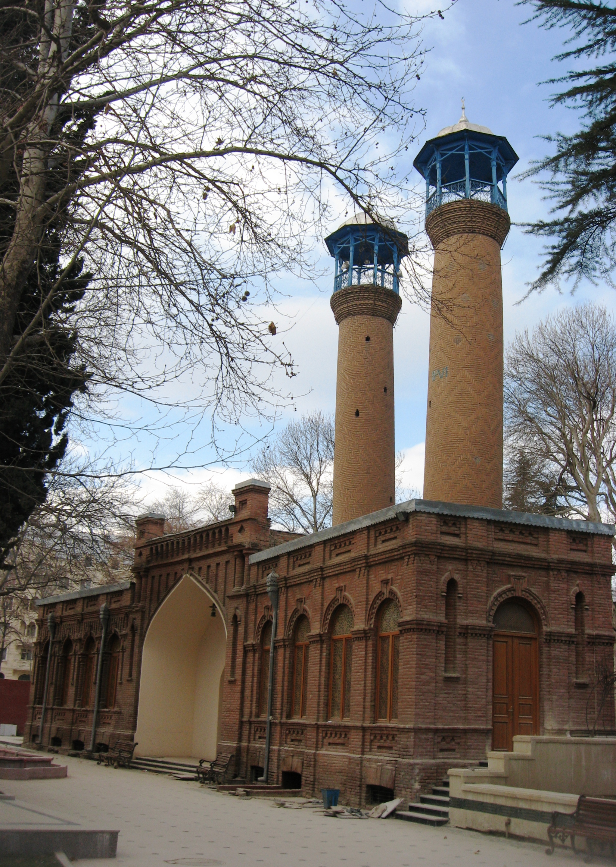 Juma mosque in Ganja (Azerbaijan)